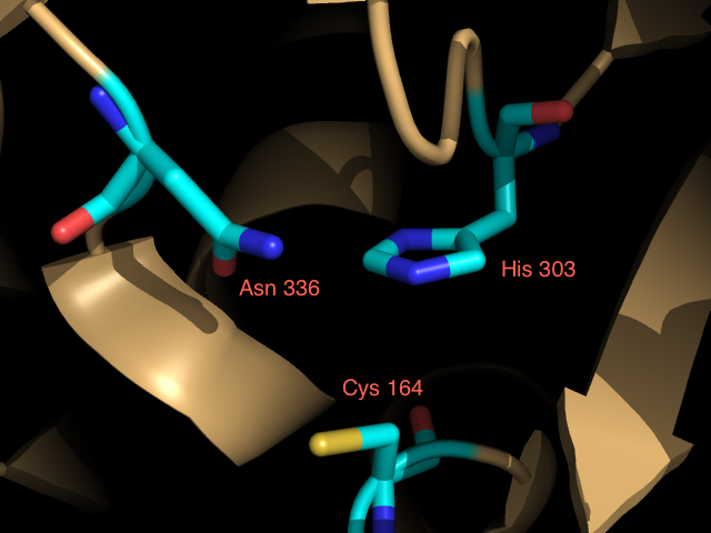 Created in PyMol using PDB: 3OV2, the structure elucidated by "Structural and Biochemical Elucidation of Mechanism for Decarboxylative Condensation of β-Keto Acid by Curcumin Synthase"